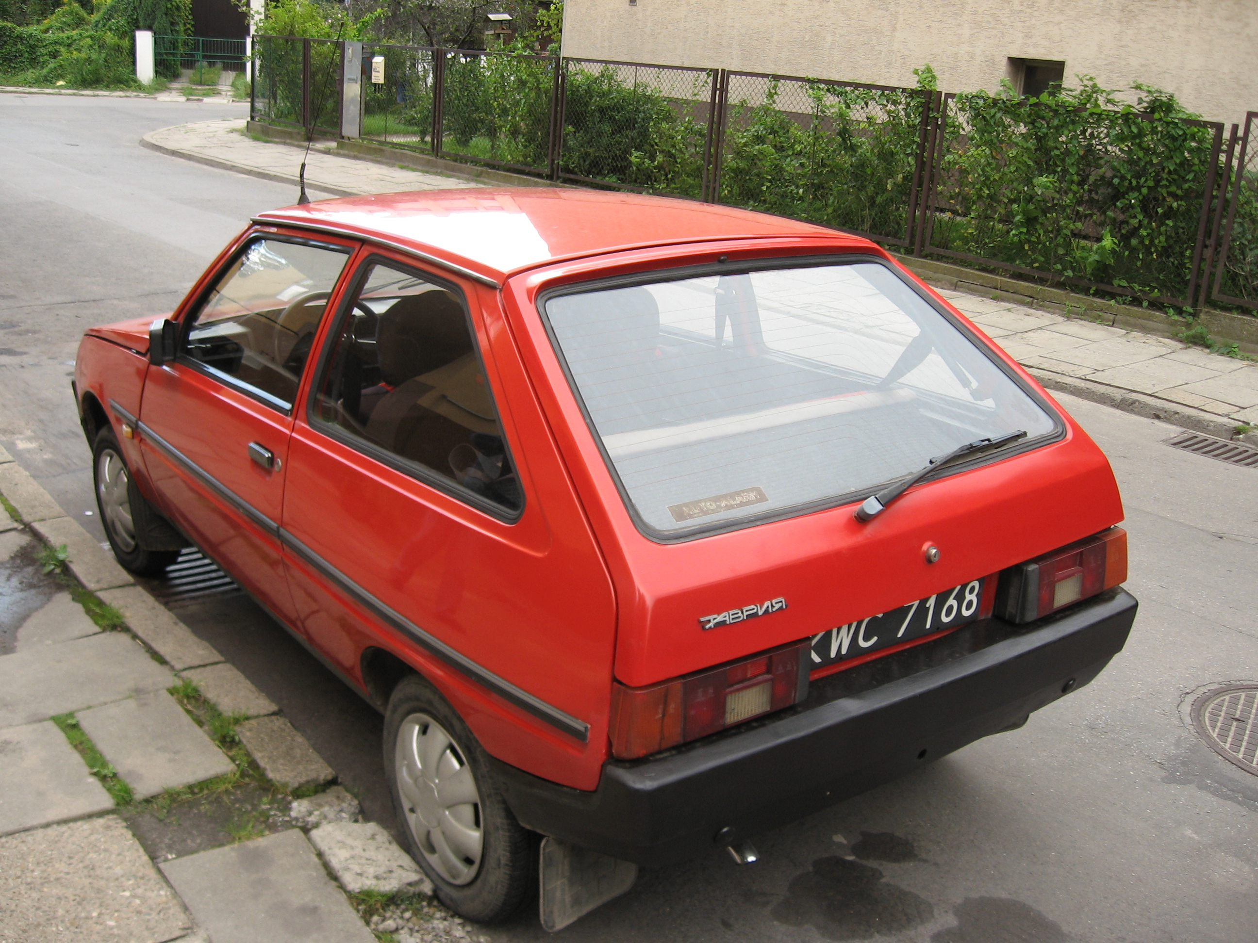 ZAZ 1102 Tavria car in Kraków, Poland.